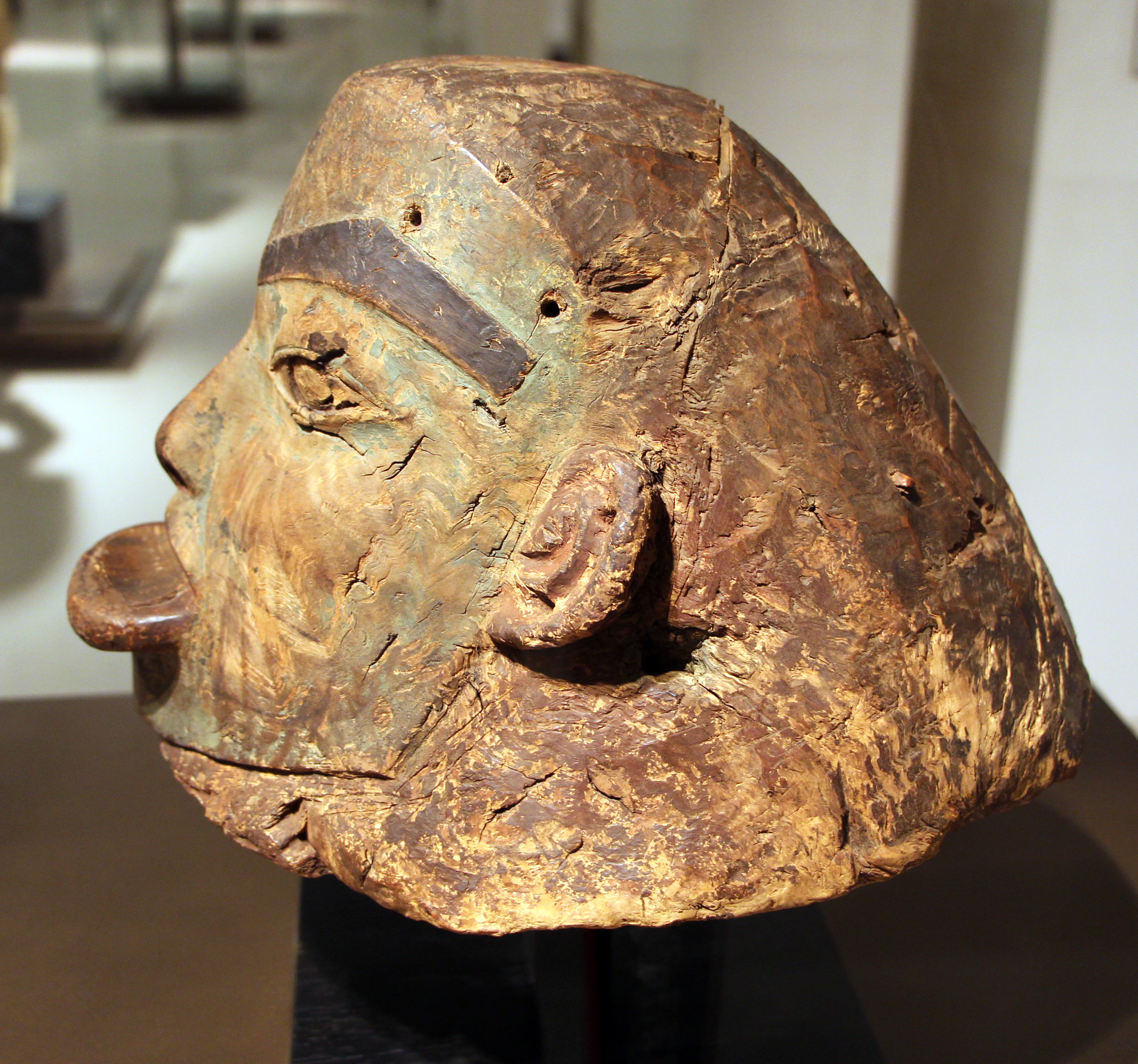 Arts of Americas in the Louvre - Room 8